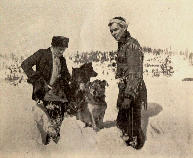 Production still from the American drama film The Law of the North (1918) with film director Irvin Willat and Charles Ray, on location in Truckee, California, on page 45 of the July 27, 1918 Exhibitors Herald.